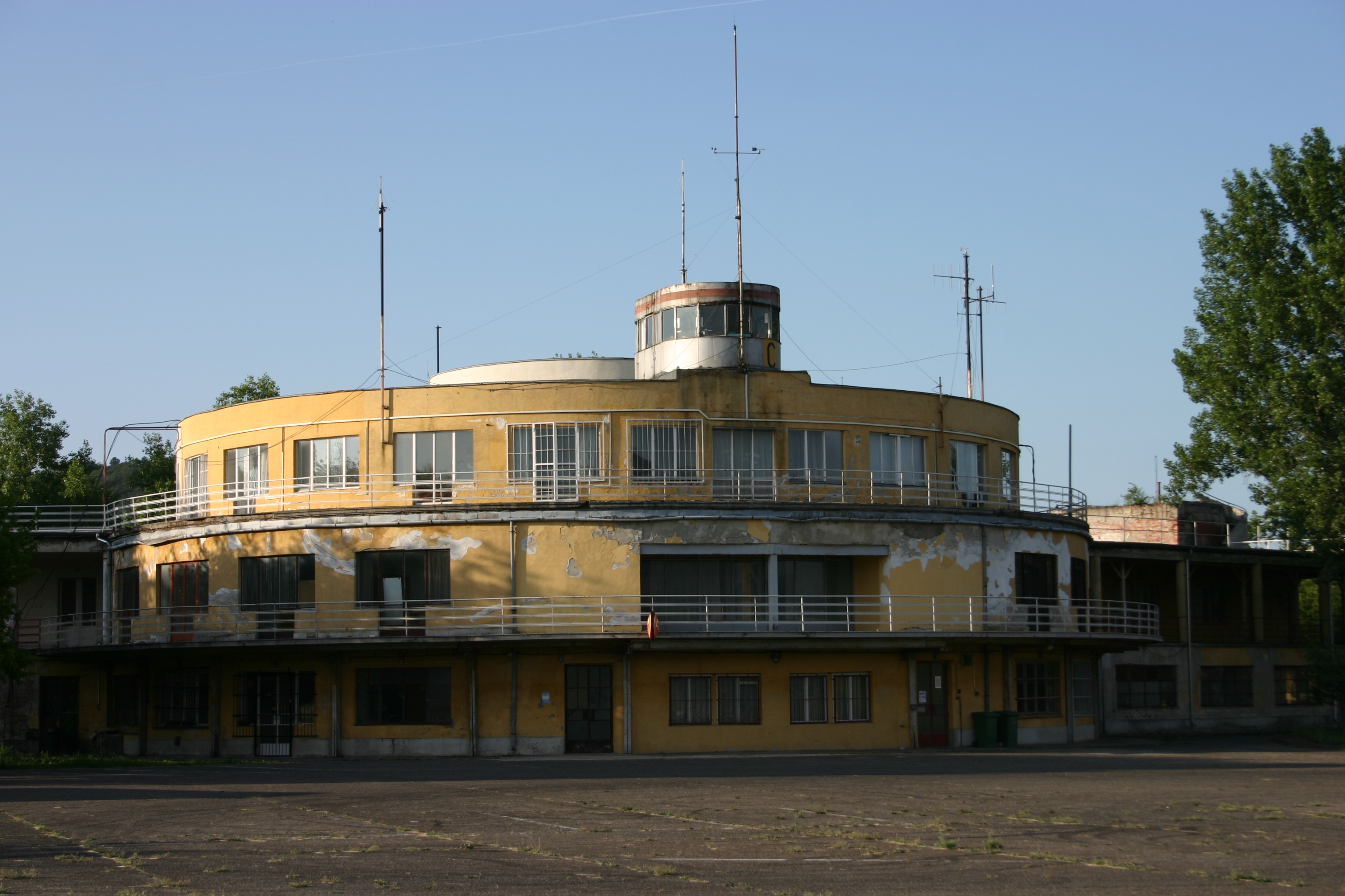 The old building of Budaörs Airport (in Budapest, District XI)